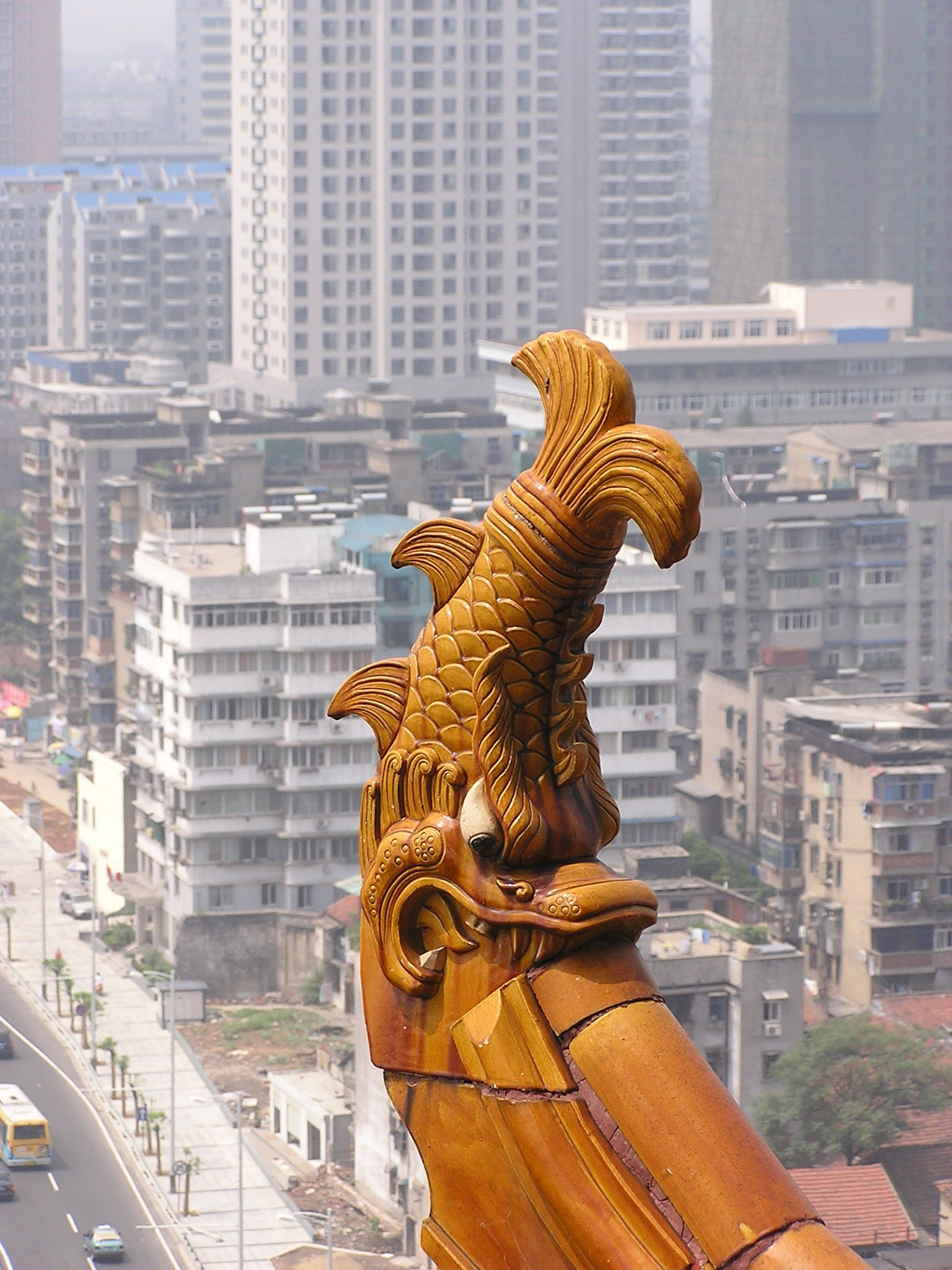 Detail of the Yellow Crane Tower (Wuhan), Chiwen protector of fire, one of the sons of the dragon in the chinese mythology.